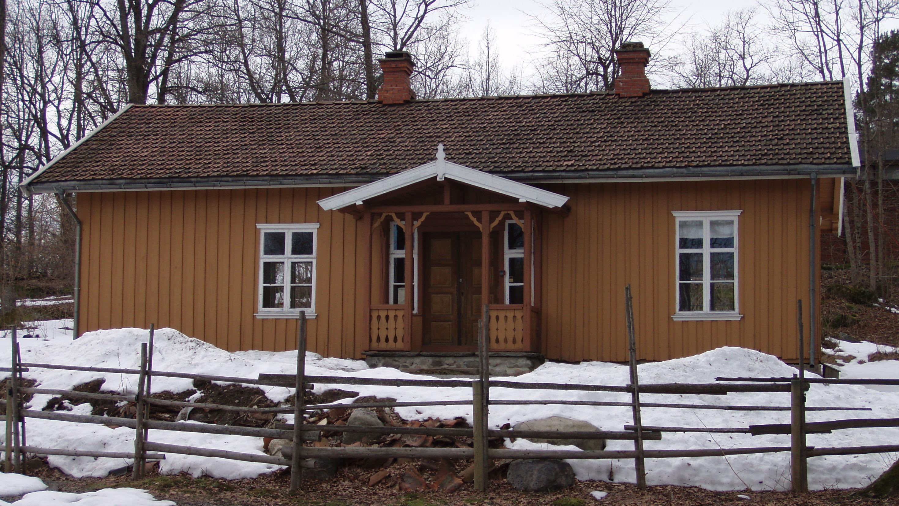 Old Holstad School, Follo Museum, Norway